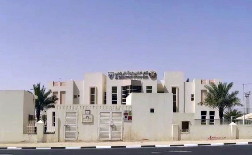 Al Kharaitiyat Sports Club Headquarters off Al Ebb Road in Al Kharaitiyat town, Umm Salal Municipality, Qatar.